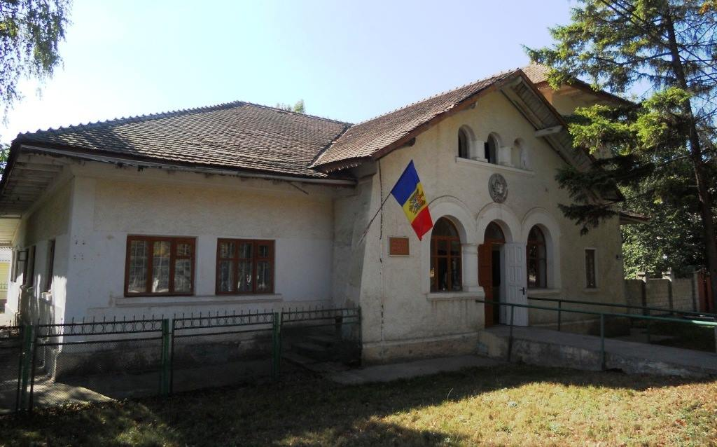 Museum of History and Ethnography of Sîngerei, Republic of Moldova